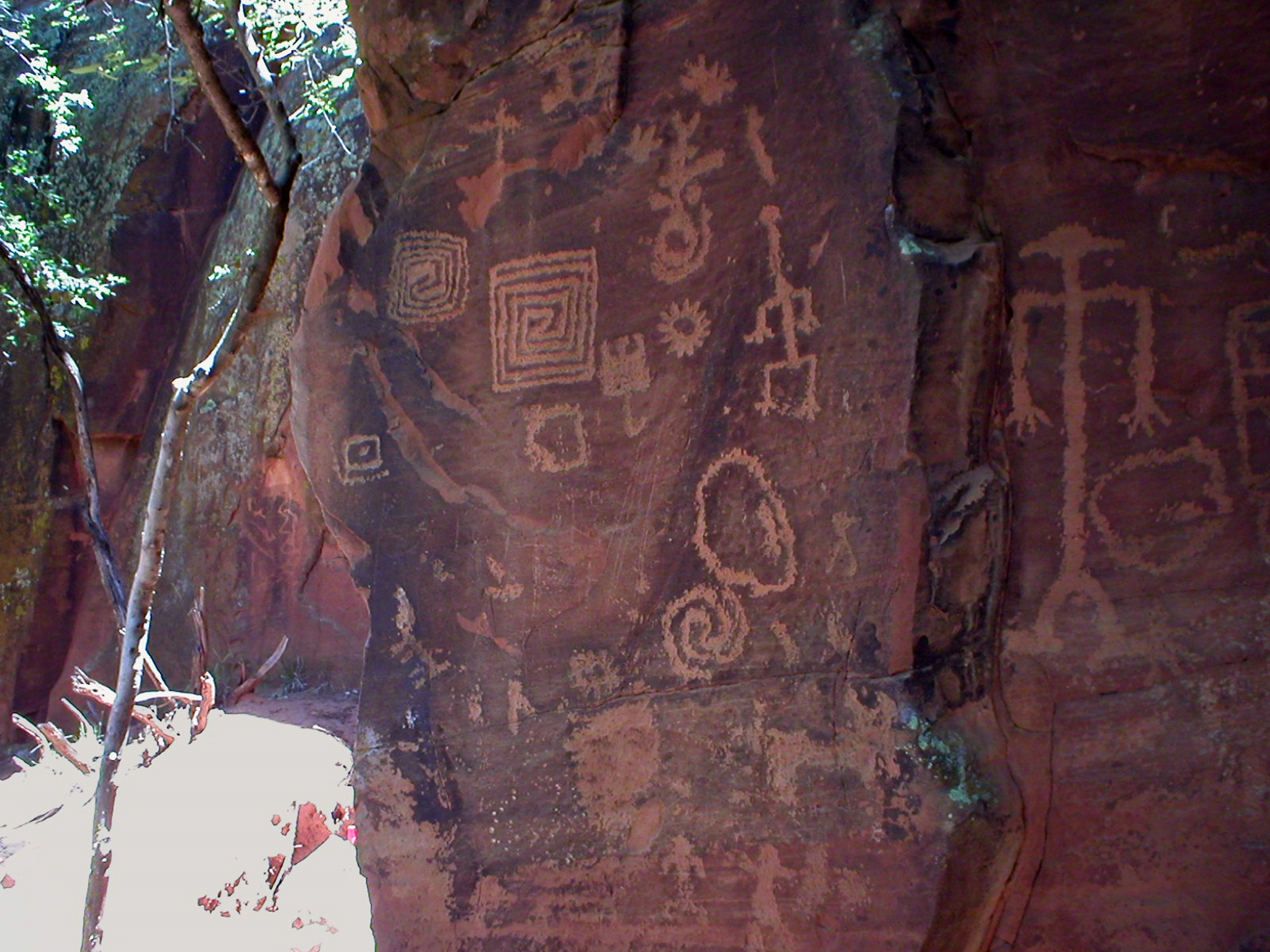 V-V Heritage Site. Taken on 1-1-02 by Justin Straquadine. For more information on the V-V Heritage Site, go to Credit: U.S. Forest Service, Coconino National Forest.